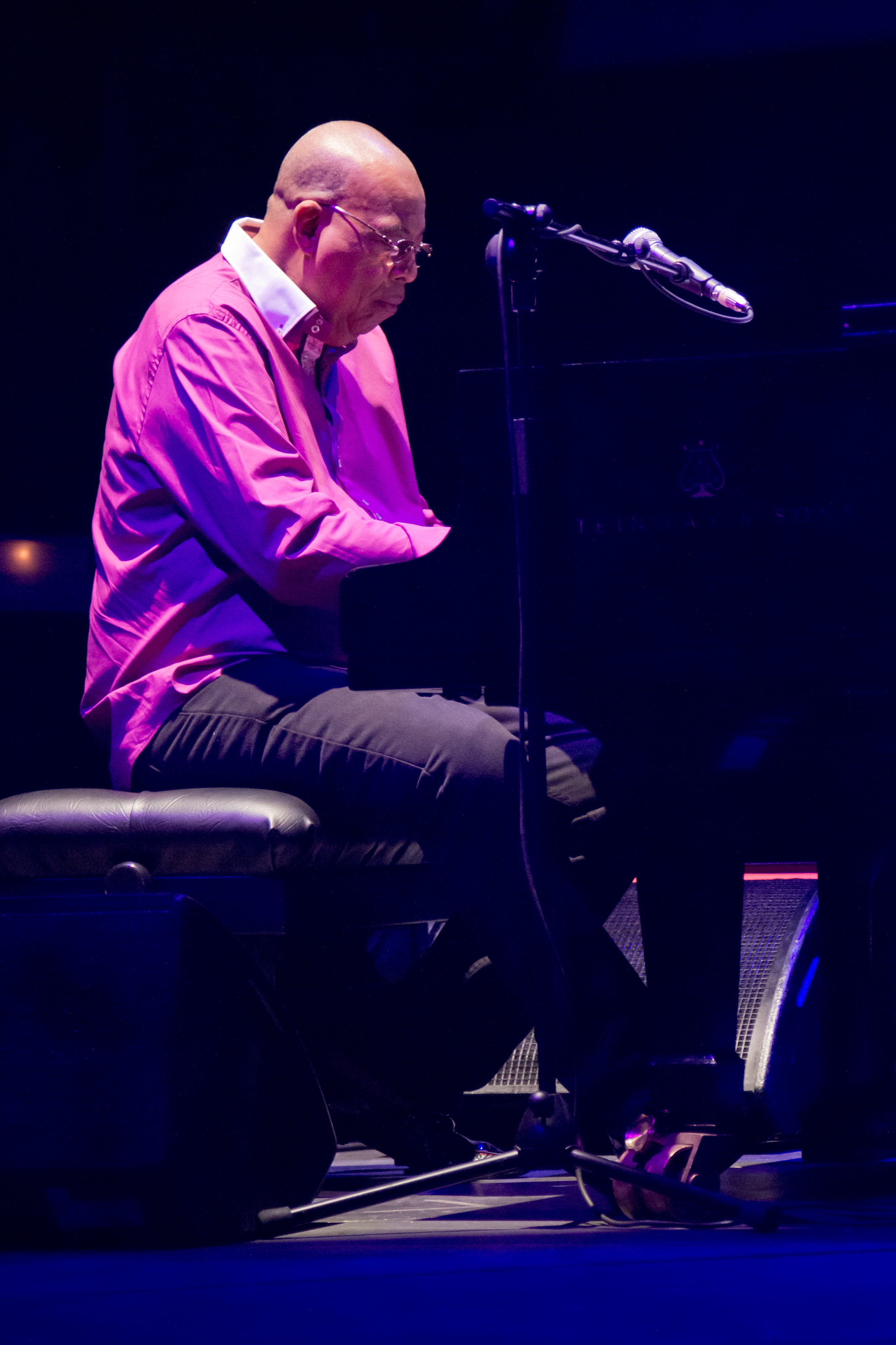 Chucho Valdés & The Afro-Cuban Messengers at a concert in Teatro Circo Price, Madrid, Spain.